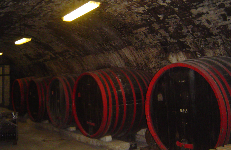 Cellar of Pezsgohaz in Pécs, Hungary.